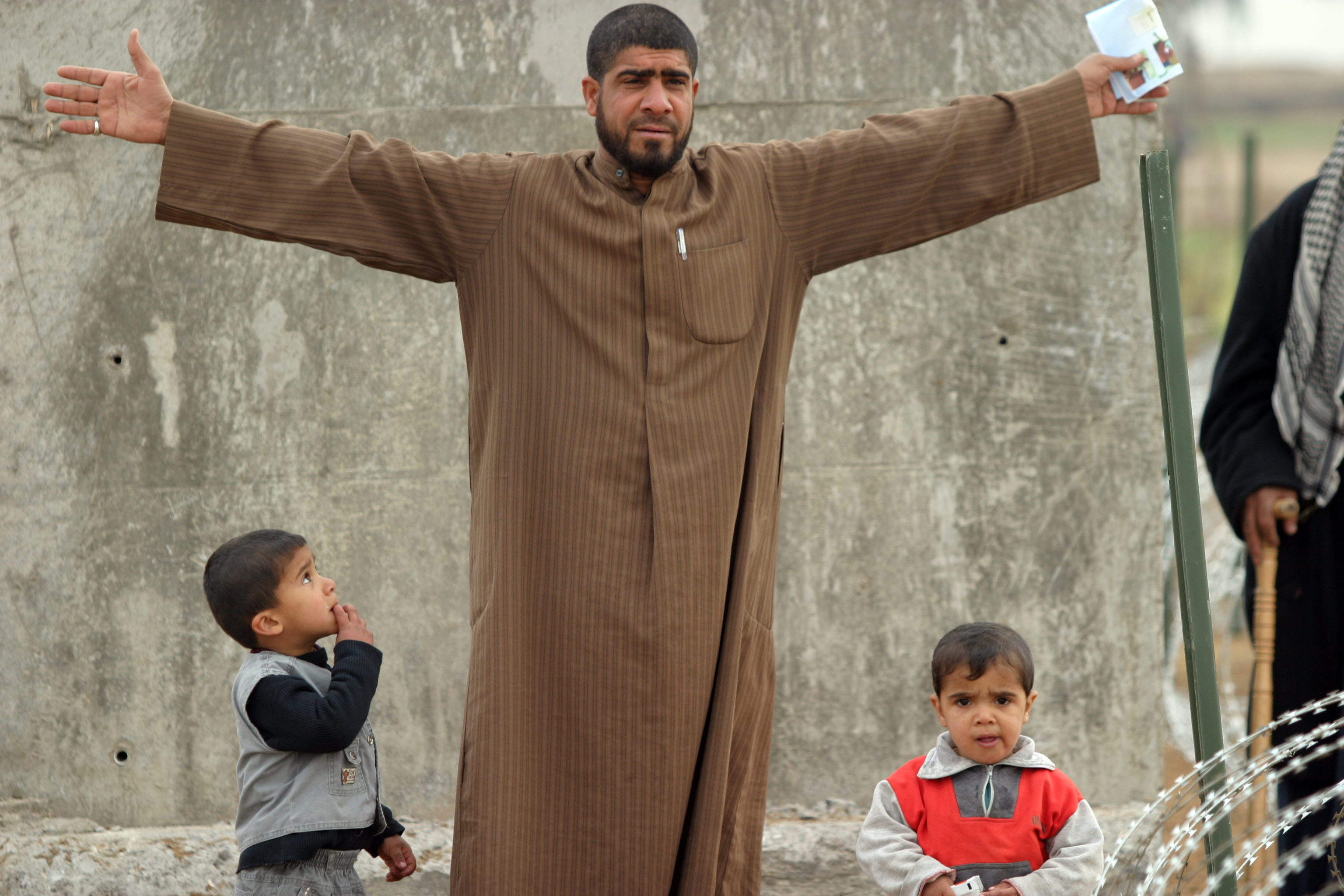 Nasarwasalam, Iraq (Jan. 30, 2005) - An Iraqi man with his sons come to vote for the first ever "Free Elections" in Iraq. Iraqi Security Force (ISF) and Marines assigned to Kilo Company, 3rd Battalion, 8th Marines, provide security for the polling sites in Nasarwasalam, Iraq. U.S. Marine Corps photo by Cpl. Trevor Gift (RELEASED)